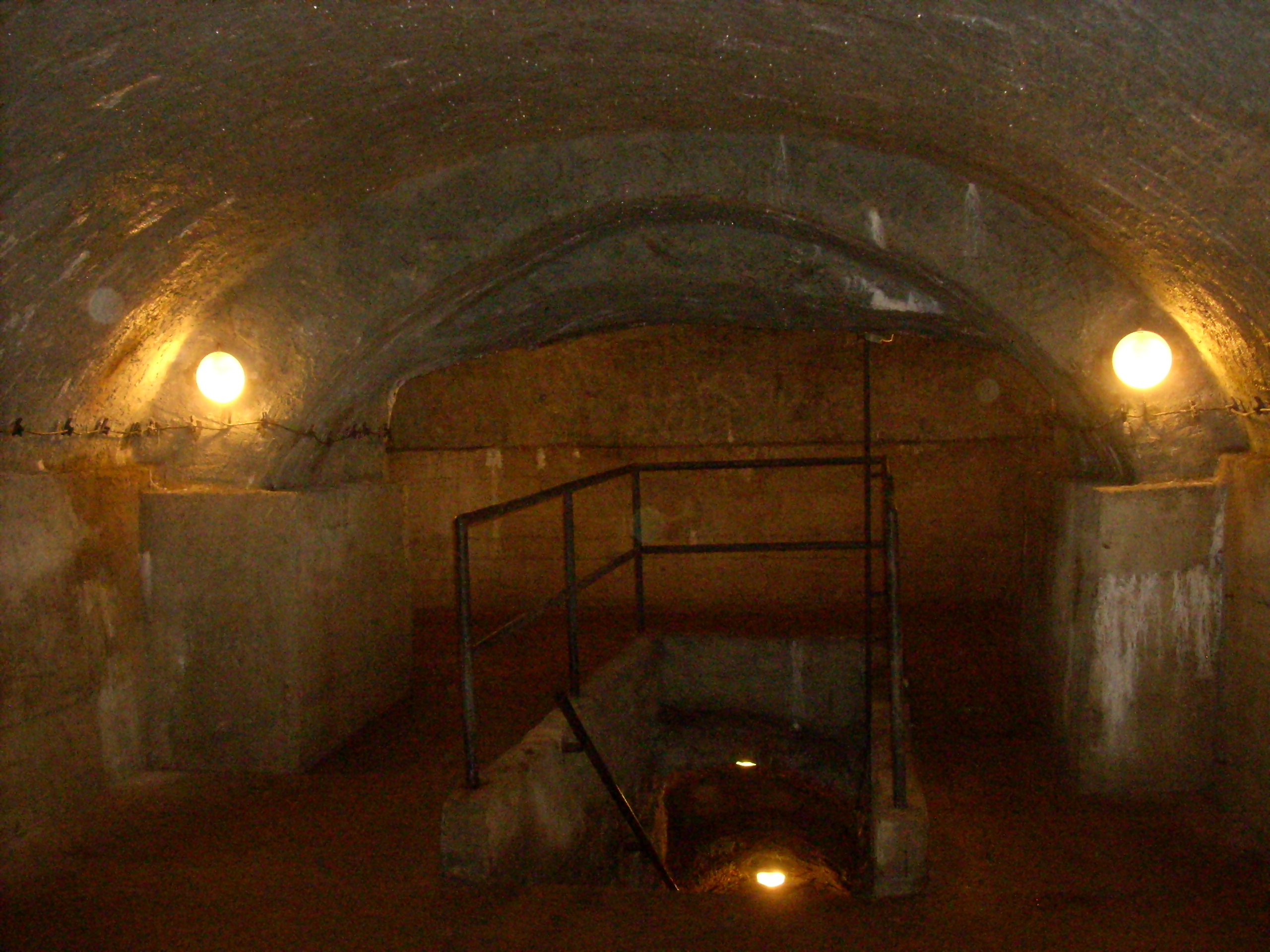 The biggest room of underground in Jihlava